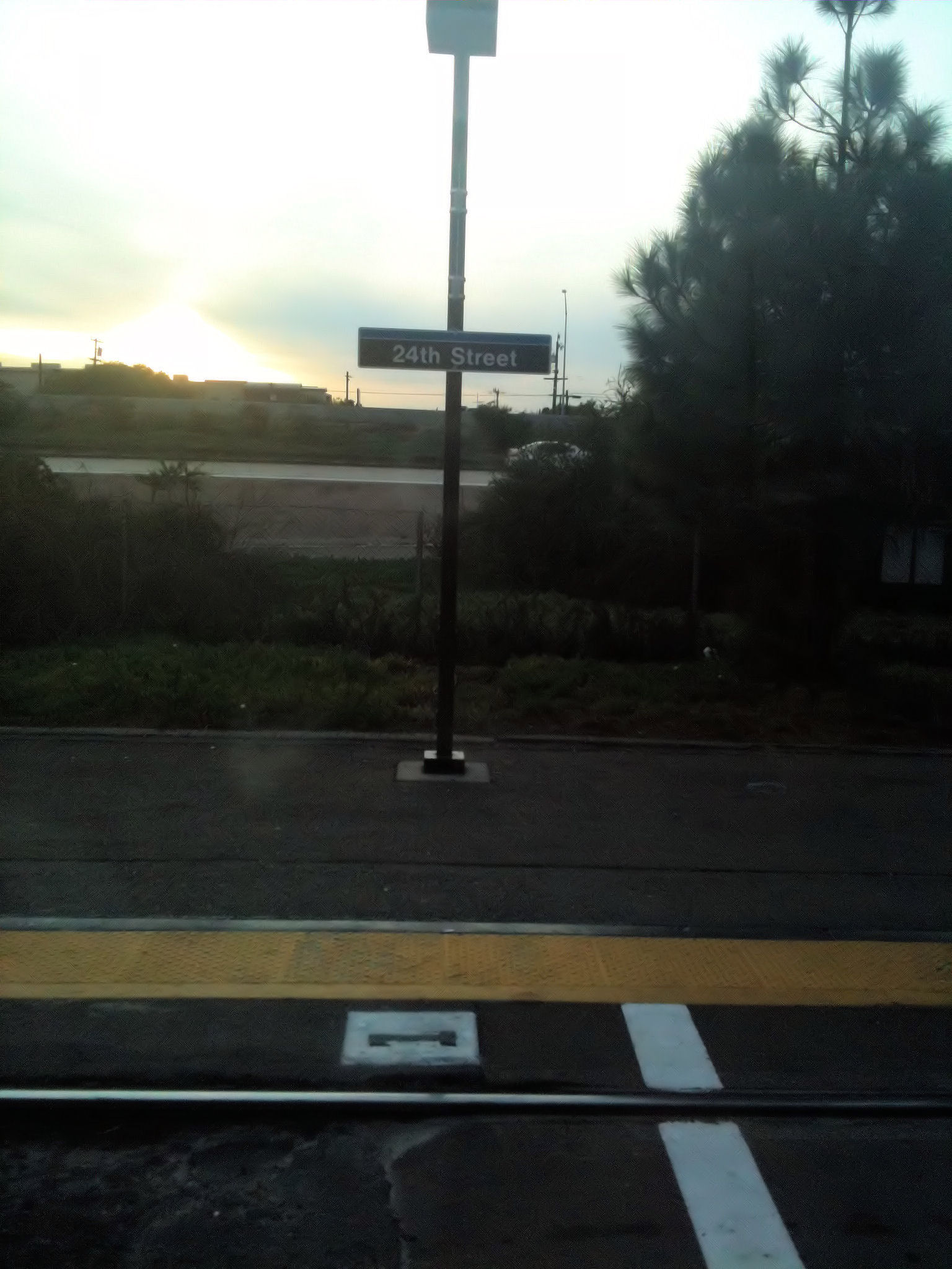 24th St Trolley Station